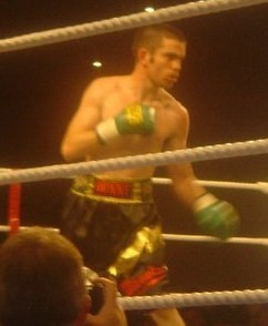 Irish boxer Beernard Dunne